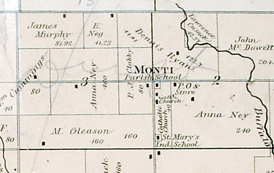 An inset of Warner and Foote's 1886 map of Newton Township, showing Monti, Iowa.